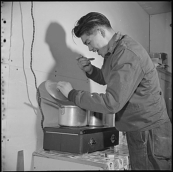 Manzanar Relocation Center, Manzanar, California. Takeshi Shindo, Manzanar Free Press Reporter, tastes some home cooked soup, prepared on the electric plate in his barracks home.